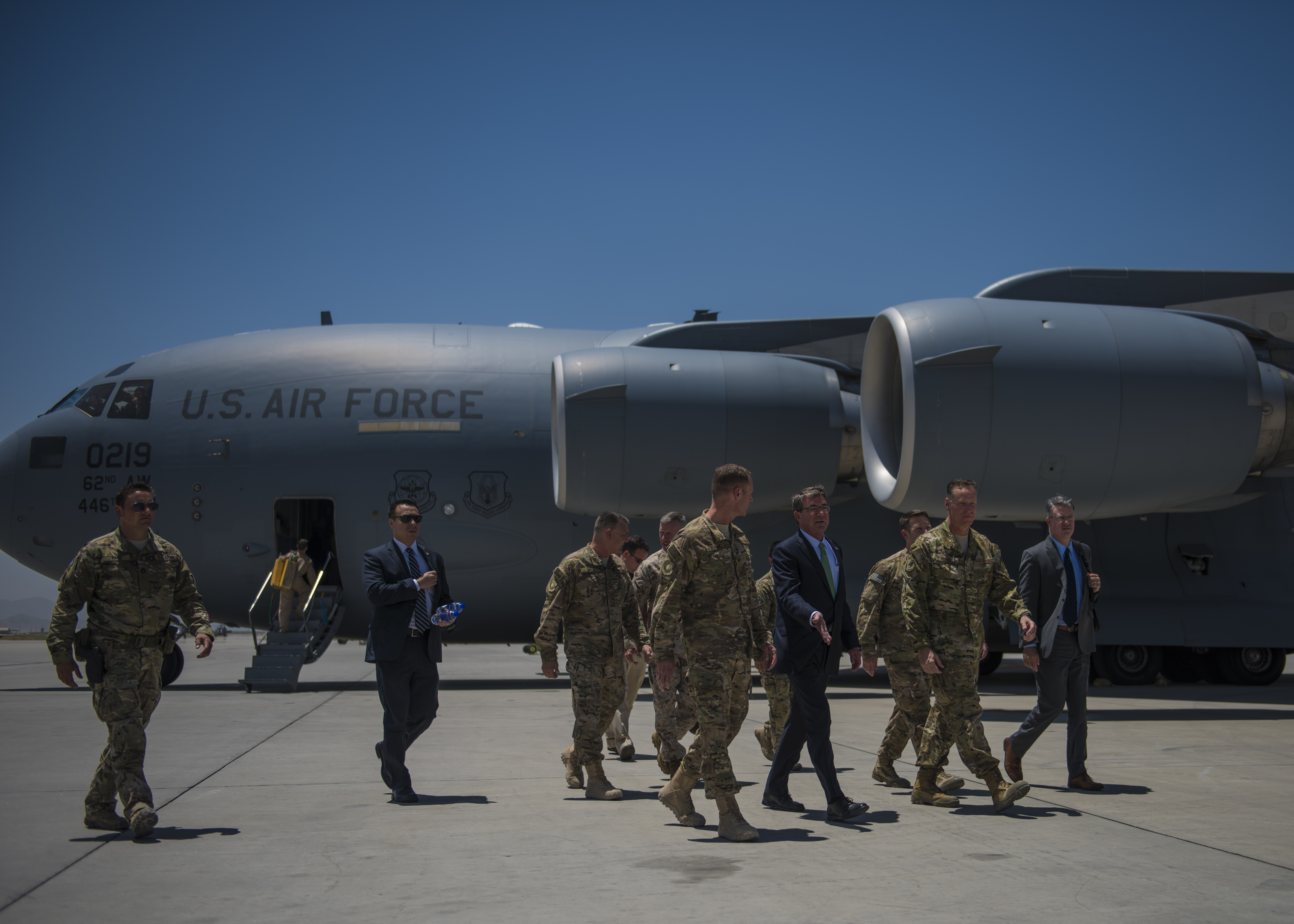 Secretary of Defense Ashton Carter takes a walk with Bagram Airfield leadership, July 12, 2016, Bagram Airfield, Afghanistan. During this trip to Afghanistan, Carter discussed the United States’ role in performing both counter-terrorism operations and training, advising, and assisting Afghan military forces. (U.S. Air Force photo by Senior Airman Justyn M. Freeman) Unit: 455th Air Expeditionary Wing DVIDS Tags: Bagram Airfield; U.S Central Command; CENTCOM; 455th Air Expeditionary Wing; Bagram; Secretary of Defense; 455th AEW; AFCENT; U.S. Air Forces Central; Afghanistan; United States Air Force; U.S. Air Force; USAF; 455 Air Expeditionary Wing; 455 AEW; United States Secretary of Defense; Freedom's Sentinel; Resolute Support; Secretary of Defense Ashton Carter